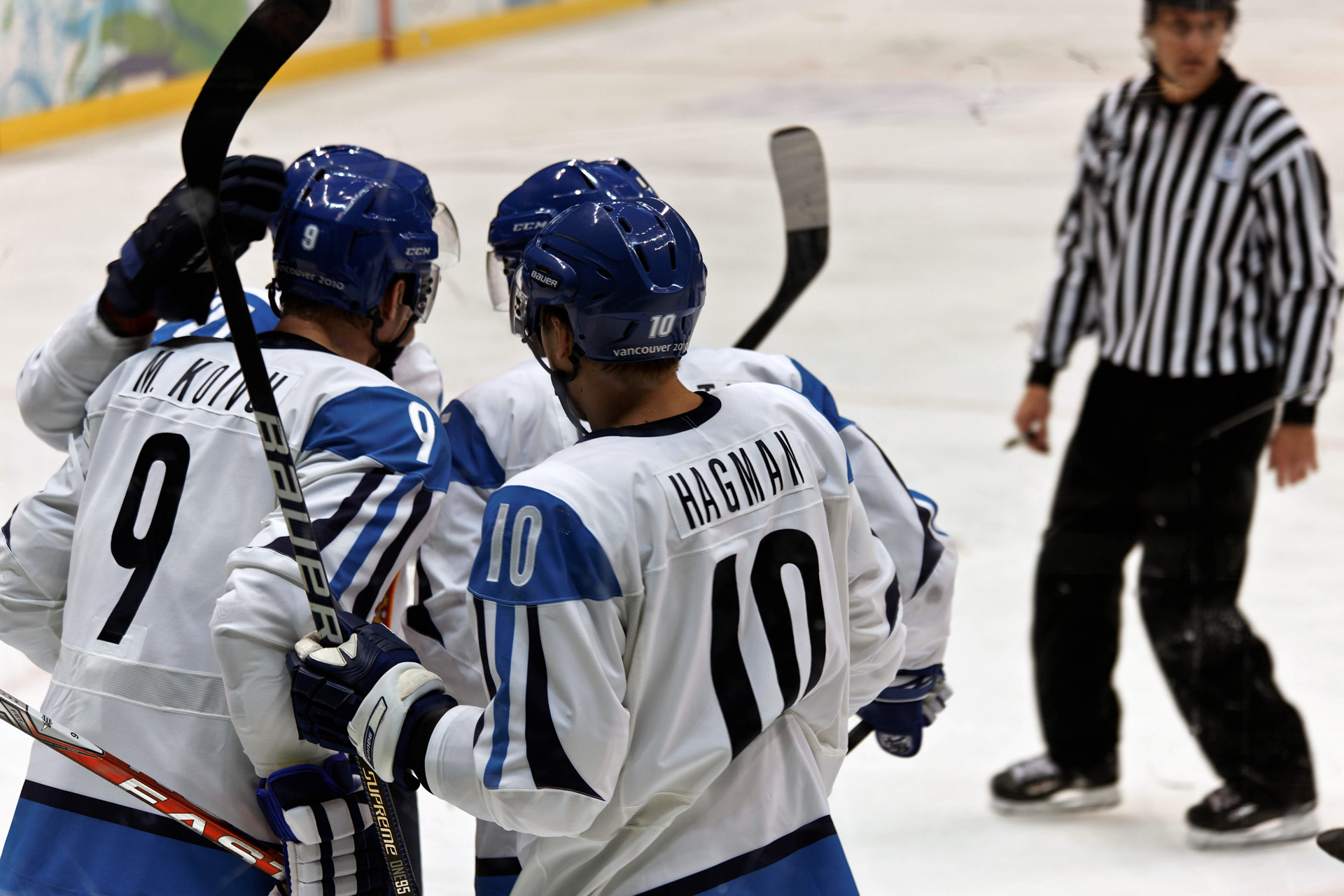 Finland forwards Mikko Koivu (#9, left) and Niklas Hagman (#10, right) celebrate a goal by Tuomo Ruutu against Germany during the 2010 Winter Olympics